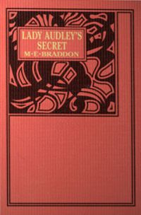 Cover of an edition of Lady Audley's Secret pre-1900.